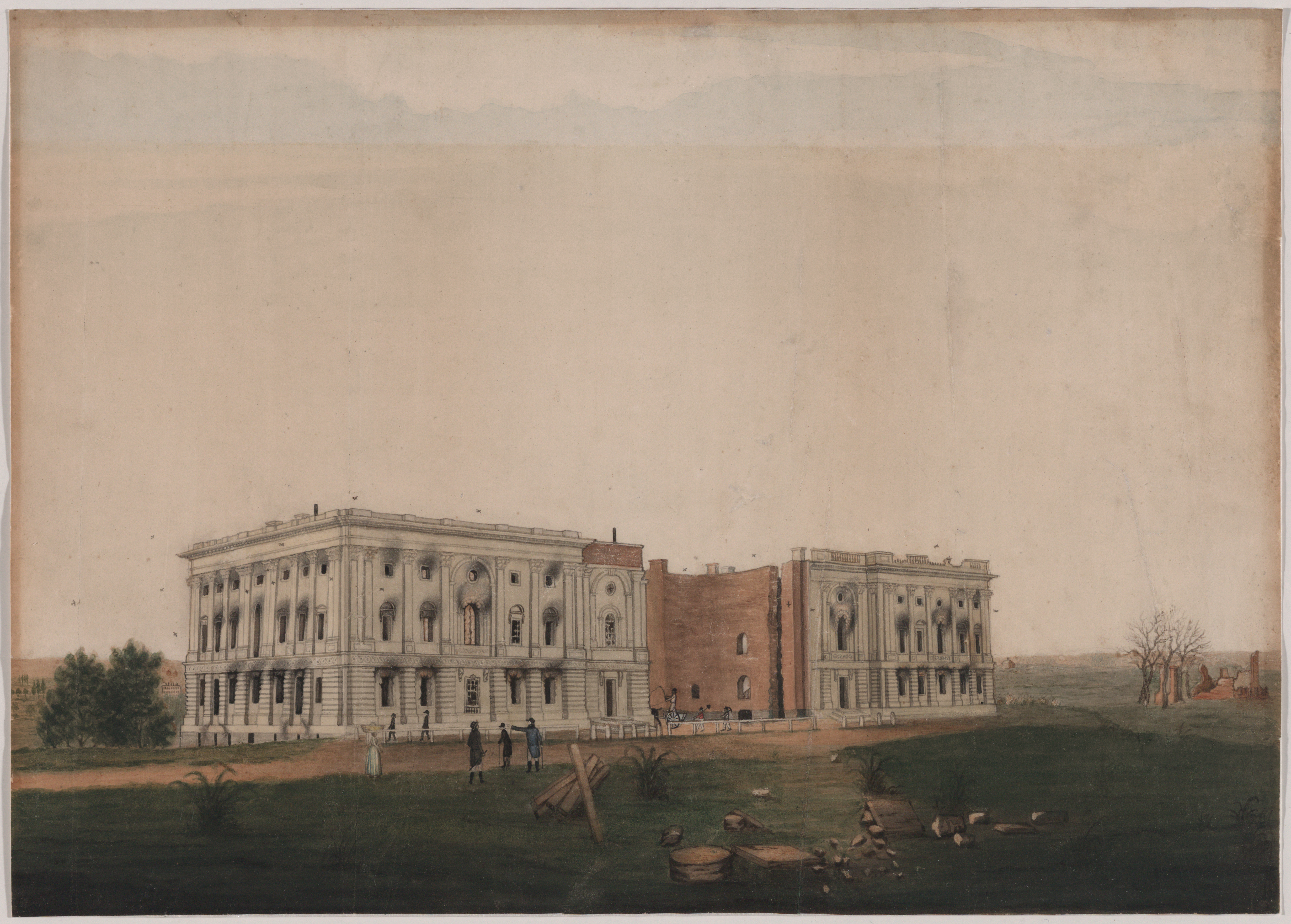 "Drawing shows the ruins of the U.S. Capitol following British attempts to burn the building; includes fire damage to the Senate and House wings, damaged colonnade in the House of Representatives shored up with firewood to prevent its collapse, and the shell of the rotunda with the facade and roof missing." "1 drawing on paper : ink and watercolor" "Historical context: George Munger's drawing, one of the most significant and compelling images of the early republic, reminds us how short-lived the history of the United States might have been. In the evening hours of August 24, 1814, during the second year of the War of 1812, British expeditionary forces under the command of Vice Admiral Sir Alexander Cockburn and Major General Robert Ross set fire to the unfinished Capitol Building in Washington, D.C. All the public buildings in the developing city, except the Patent Office Building, were put to the torch in retaliation for what the British perceived as excessive destruction by American forces the year before in York, capital of upper Canada. At the time of the British invasion, the unfinished Capitol building comprised two wings connected by a wooden causeway. This exceptional drawing, having descended in the Munger family, was purchased by the Library of Congress at the same time the White House purchased the companion view of the President's House."